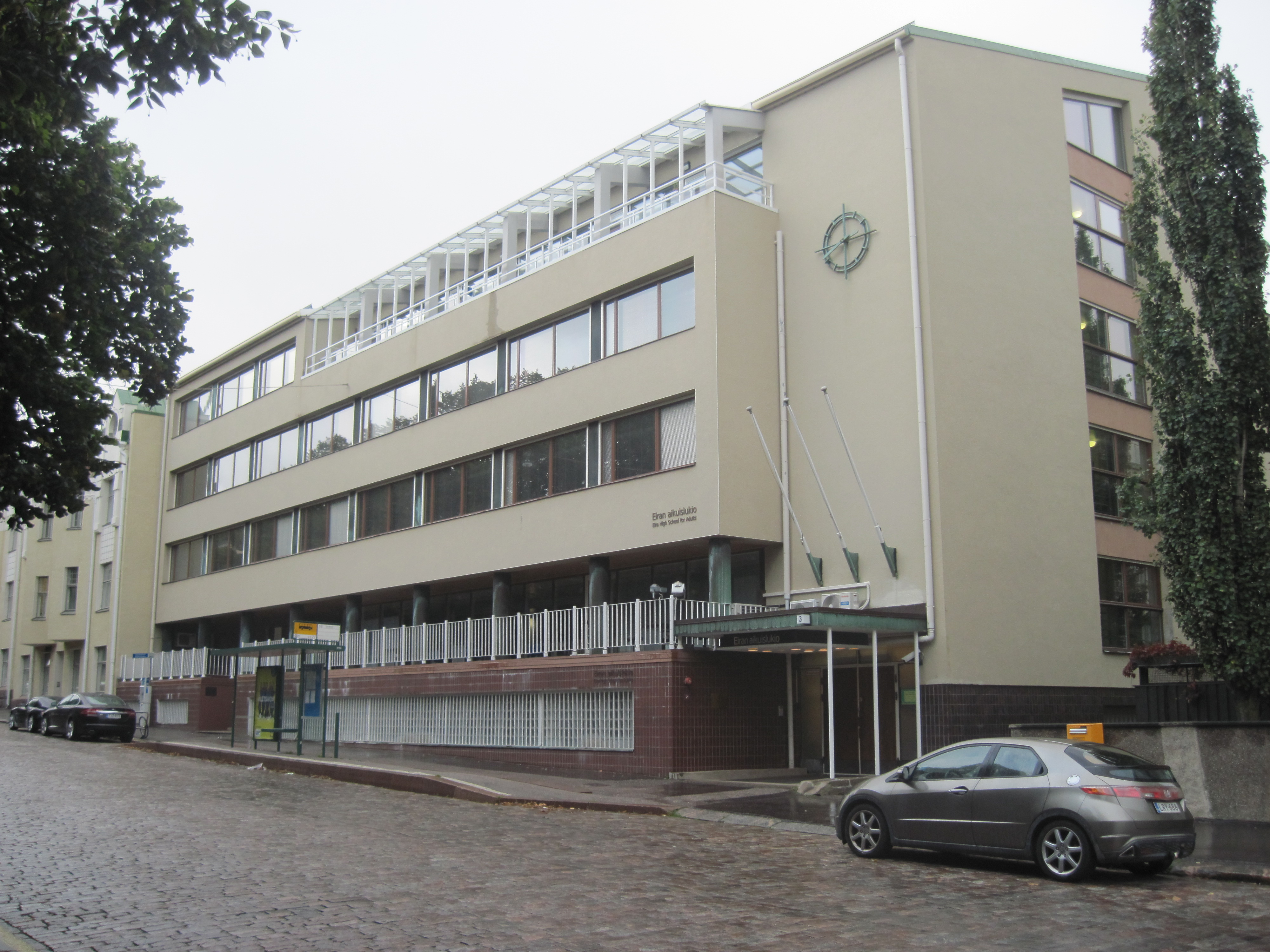 Eiran aikuislukio, School building in Helsinki